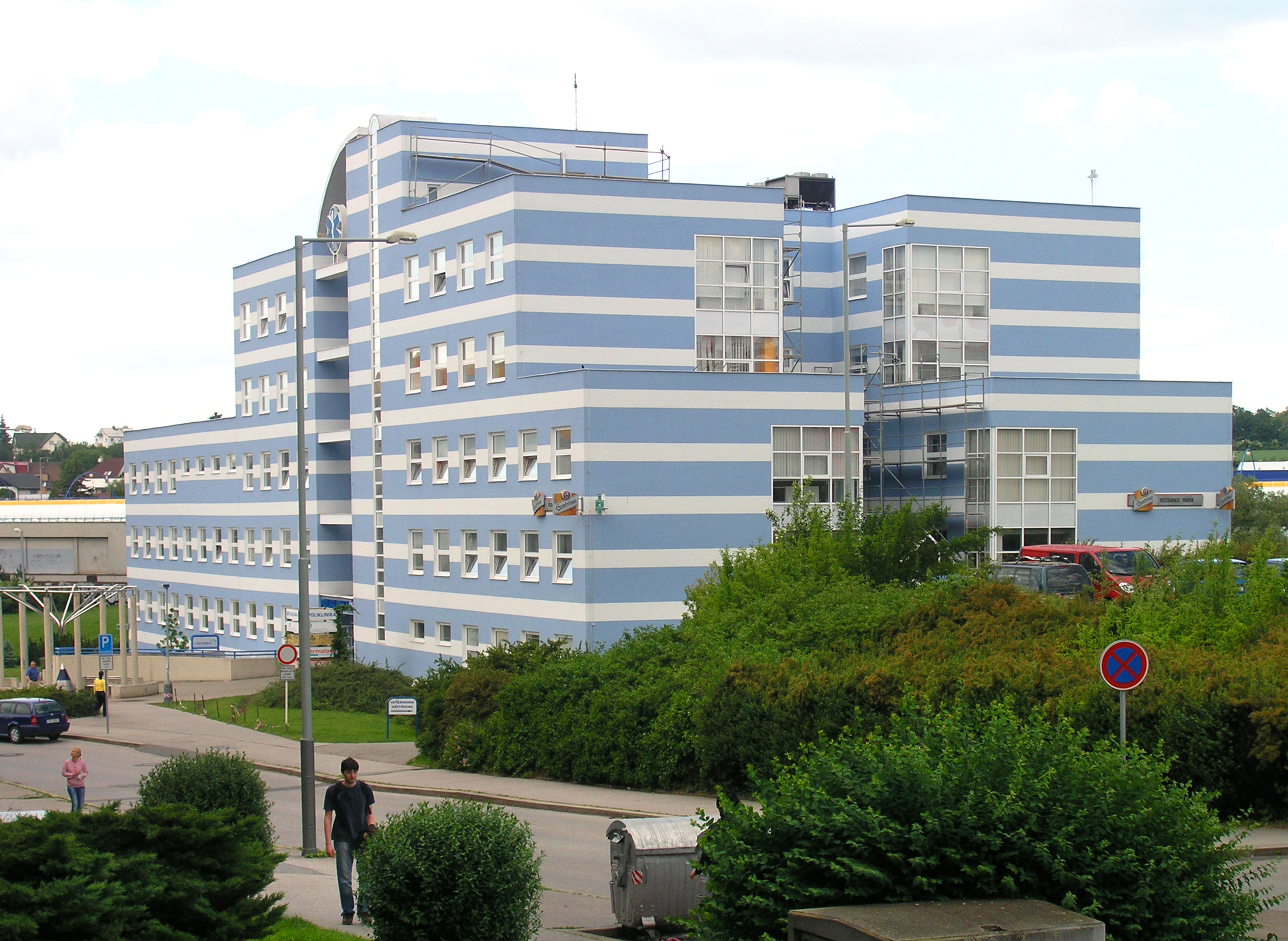 Health centre "Parník" (Steamboat) in Černý Most, Prague